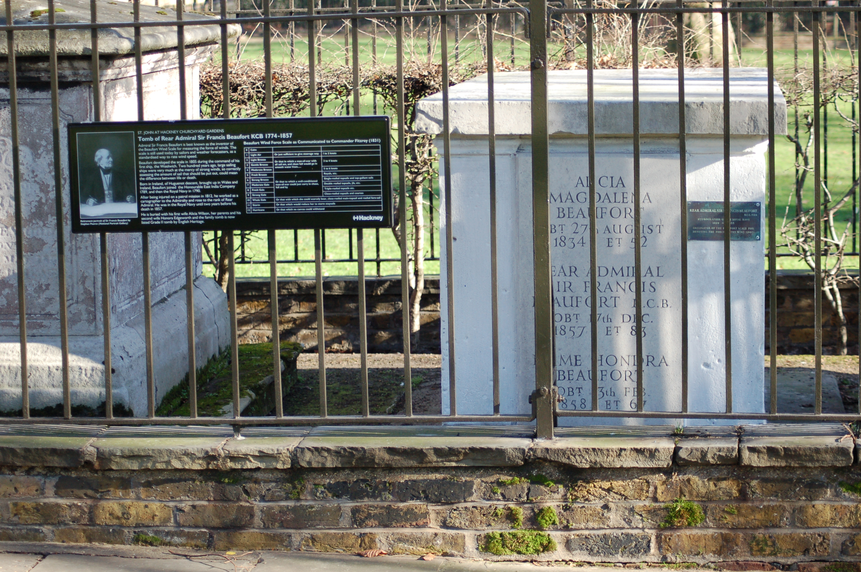 Tomb of Francis Beaufort, Church of St John-at-Hackney Taken by me, pls respect license and attribution